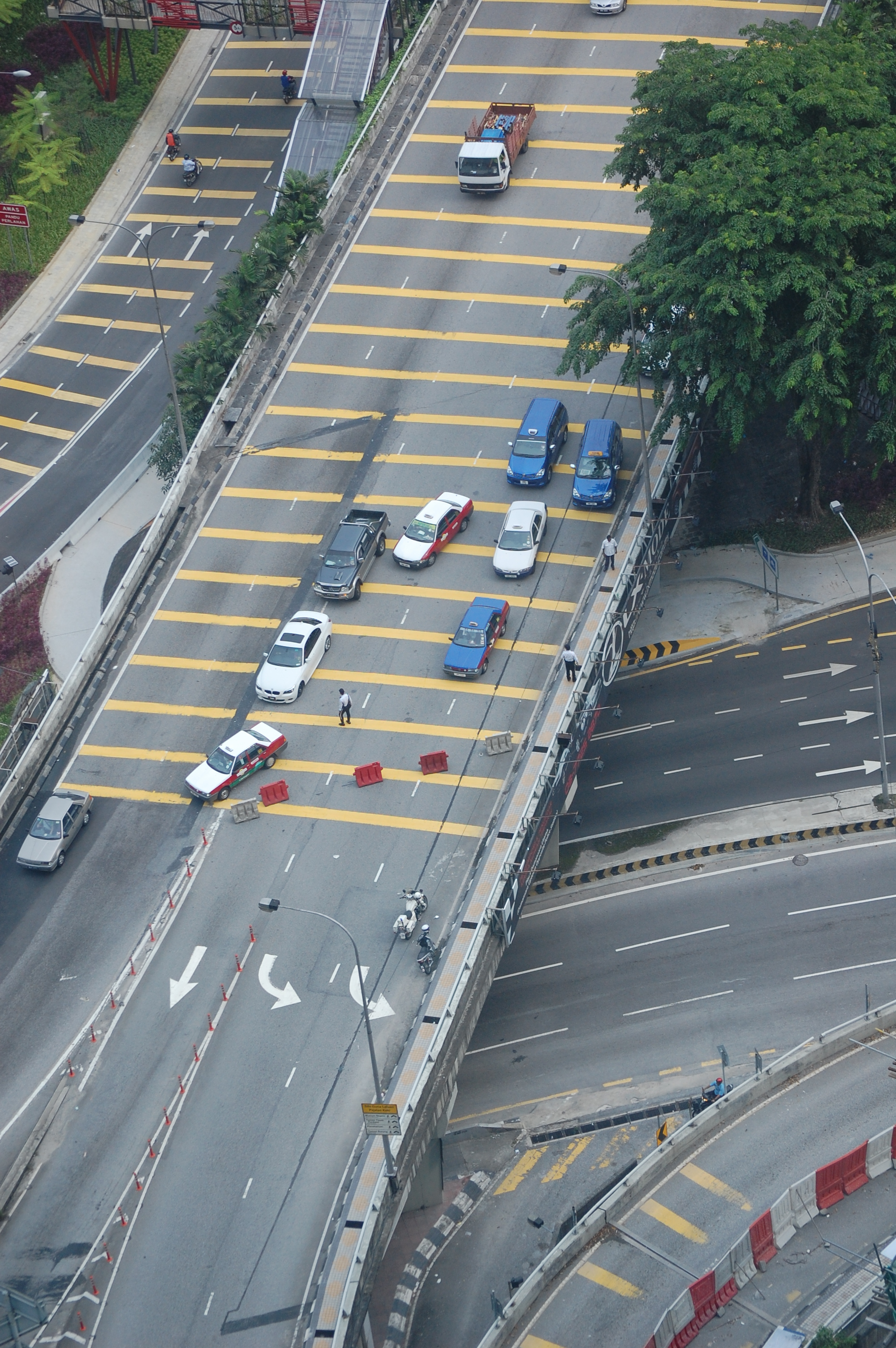 The author of this media is me, Hafiz Noor Shams, User __earth. The Malaysian police enforced road blocks throughout the city to discourage turnout for the July 9 2011 Bersih protest.